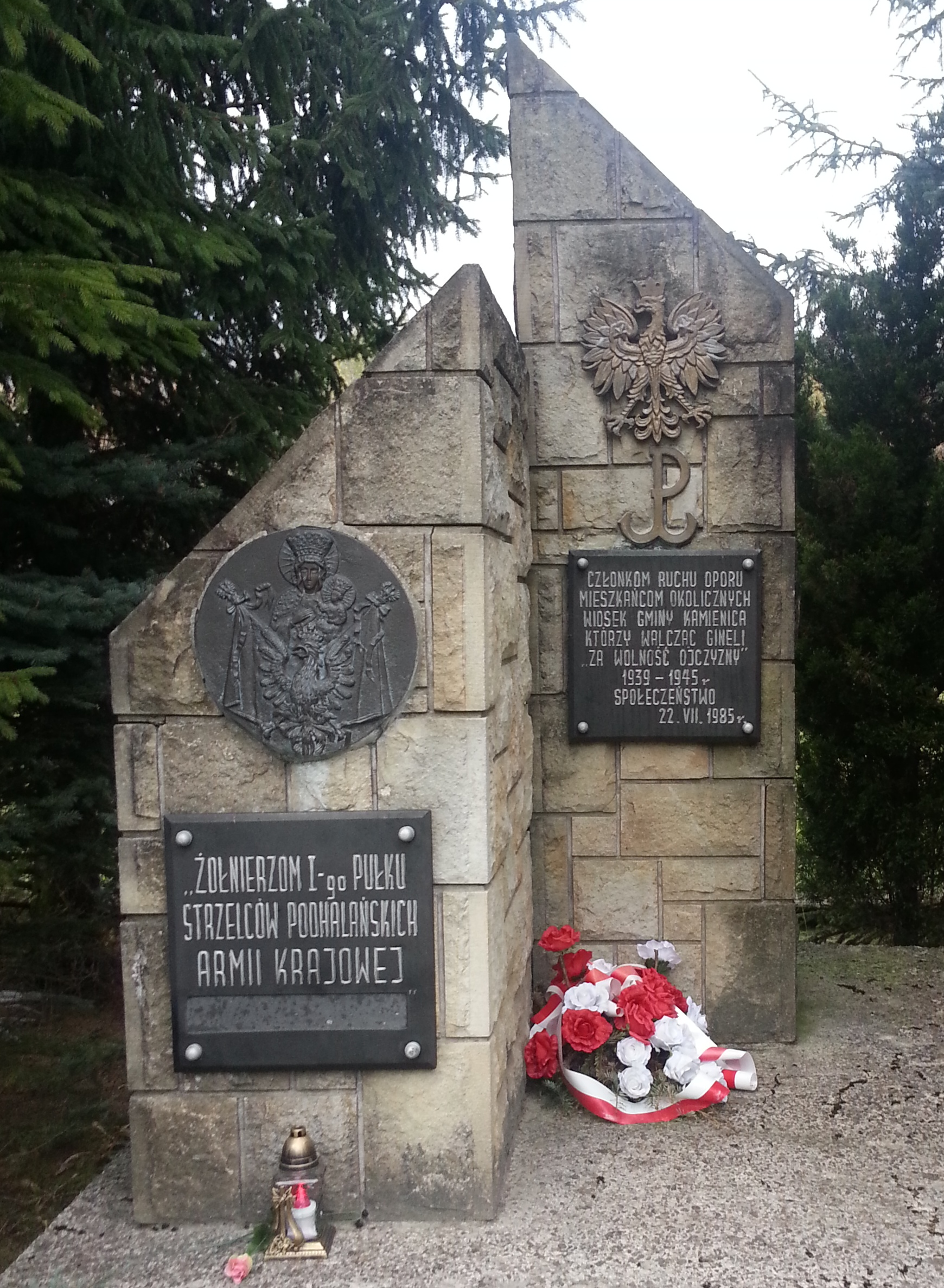 Monument 1 psp AK w Szczawie